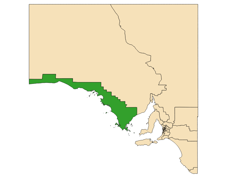 Electoral district 2018 boundaries shown in green